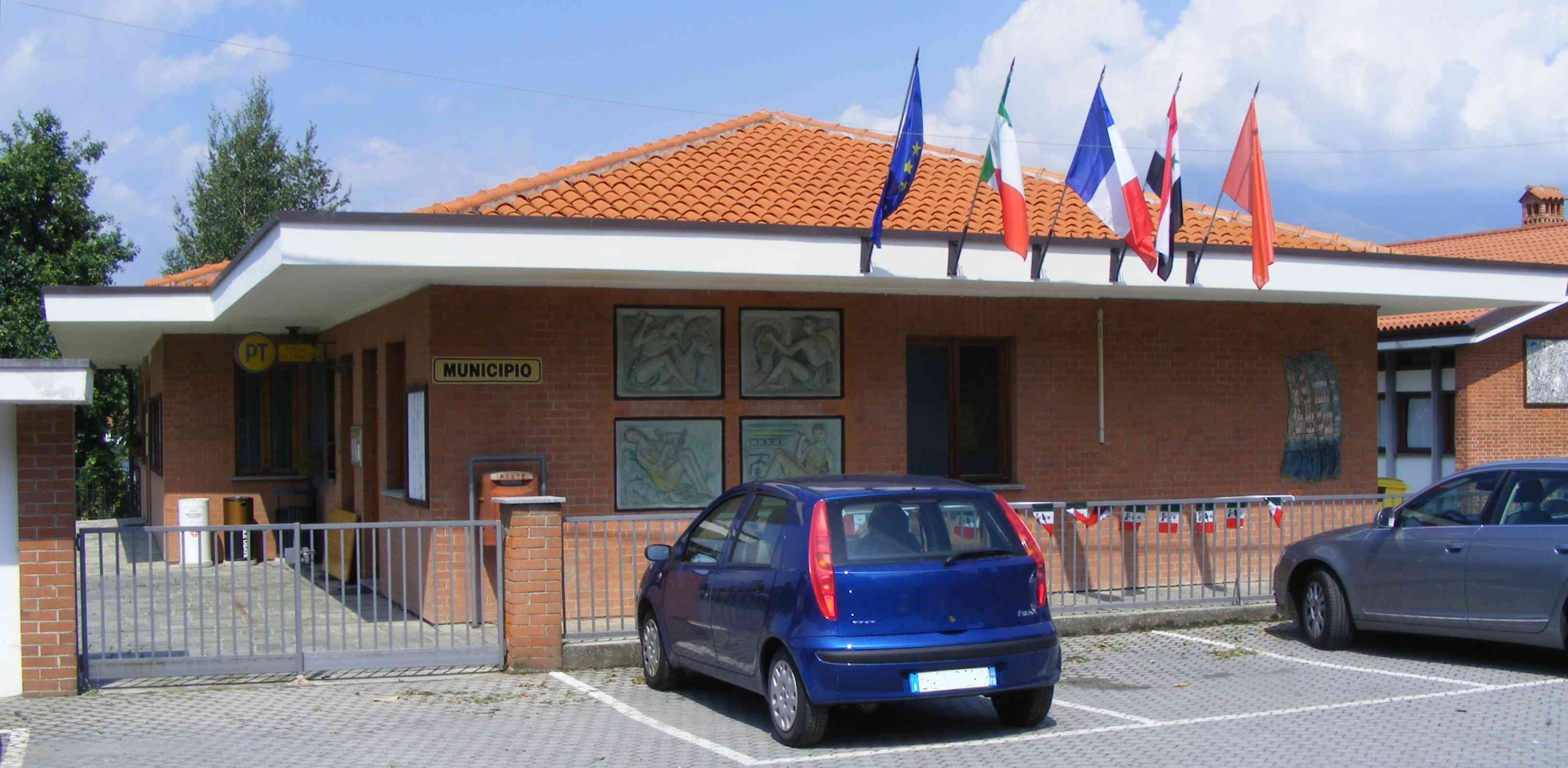 Torre Canavese (TO, Italy): town hall